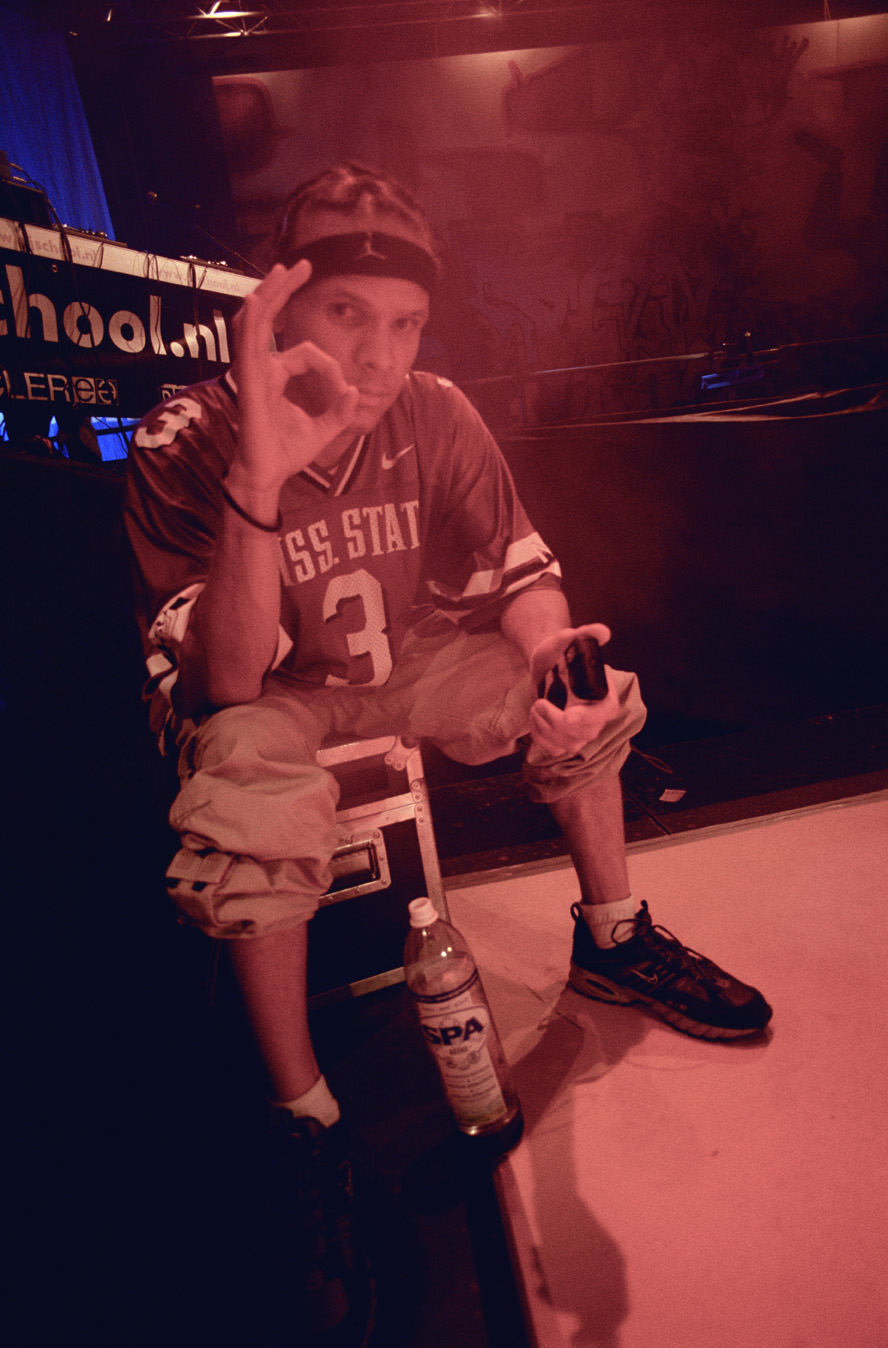 Hamburg/Germany 2001